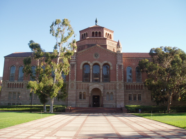 The Powell Library building, University of California, Los Angeles